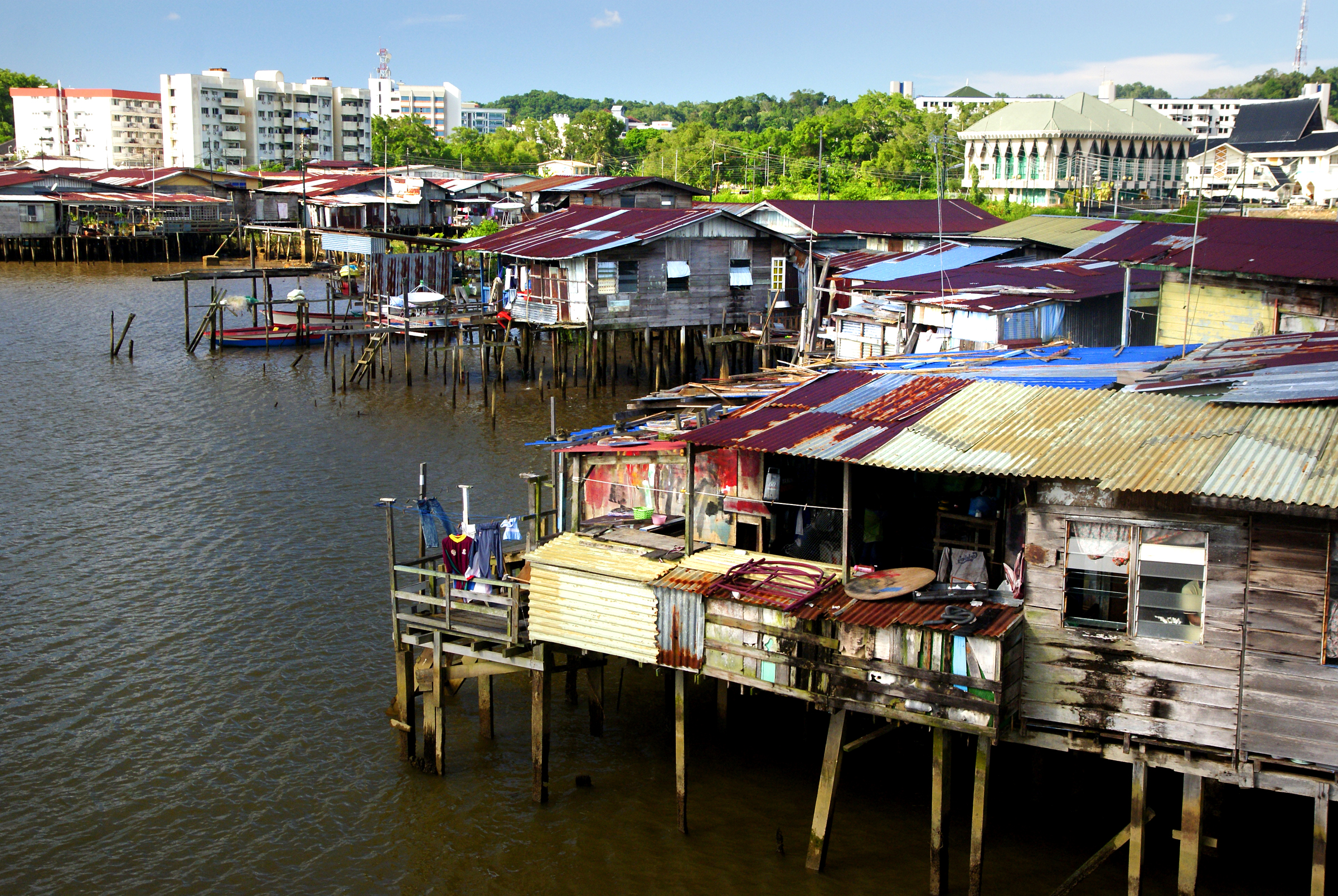 The Water Village (or Kampong Ayer in Malay) is a water settlement that houses some 30,000 people -- half the population of Bandr Seri Bagawan. All the buildings are built over the Brunei River, stand on stilts and connected by some 36 km of boardwalks. Long wooden speed boats, (water taxis), serve as a means of rapid transport for the water village. From a distance the water village looks like a slum but it has mosques, restaurants, shops even a school and a hospital. It enjoys modern amenities such as electricity, plumbing, air conditioning, satellite television and Internet access.